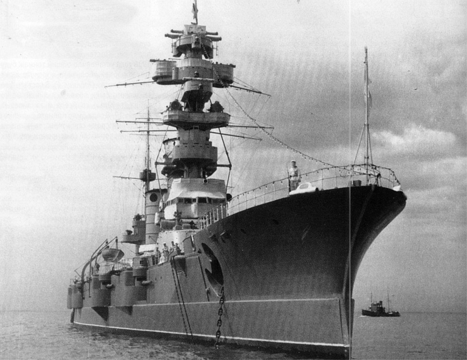 Soviet battleship Marat, 1940.